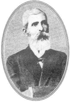 Rodolfo Marcos Teófilo, the creator of cajuína.